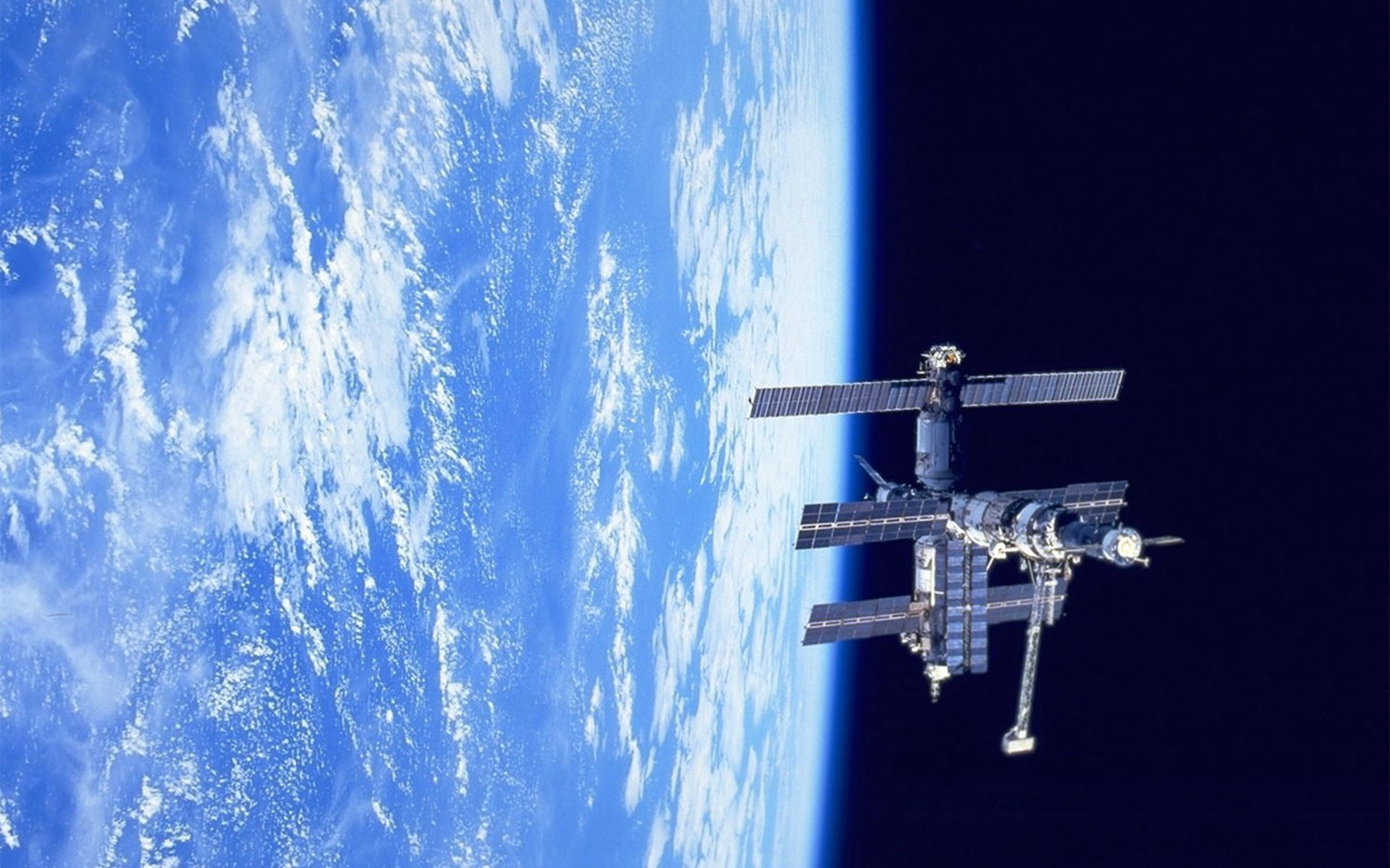 This picture of the Russian space station Mir over the Pacific Ocean was recorded by the Space Shuttle Discovery in February 1995. During this mission Discovery performed a rendezvous and "fly around" with Mir in preparation for a future docking mission.